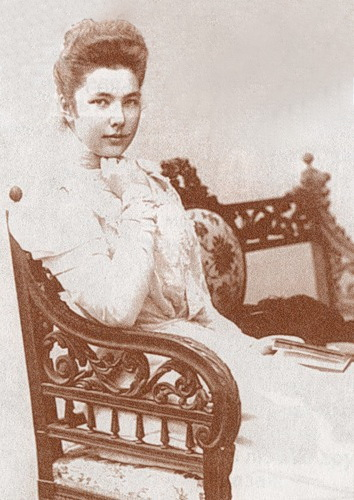 Vera Kleinmichel.Beginning XX of century